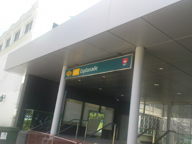 The entrance of Esplanade MRT Station on the Circle Mass Rapid Transit Line in Singapore.